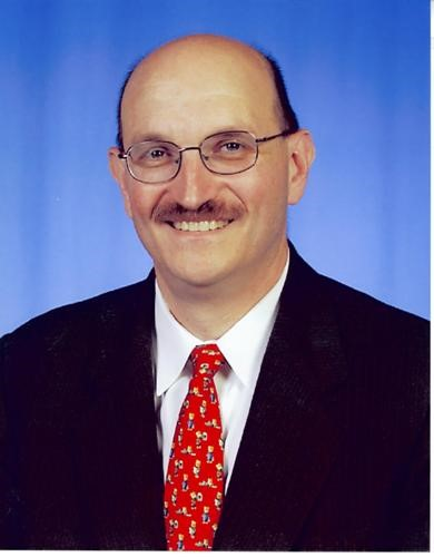 John W. Dinkelman, Deputy Chief of Mission at the Embassy in Nassau, The Bahamas